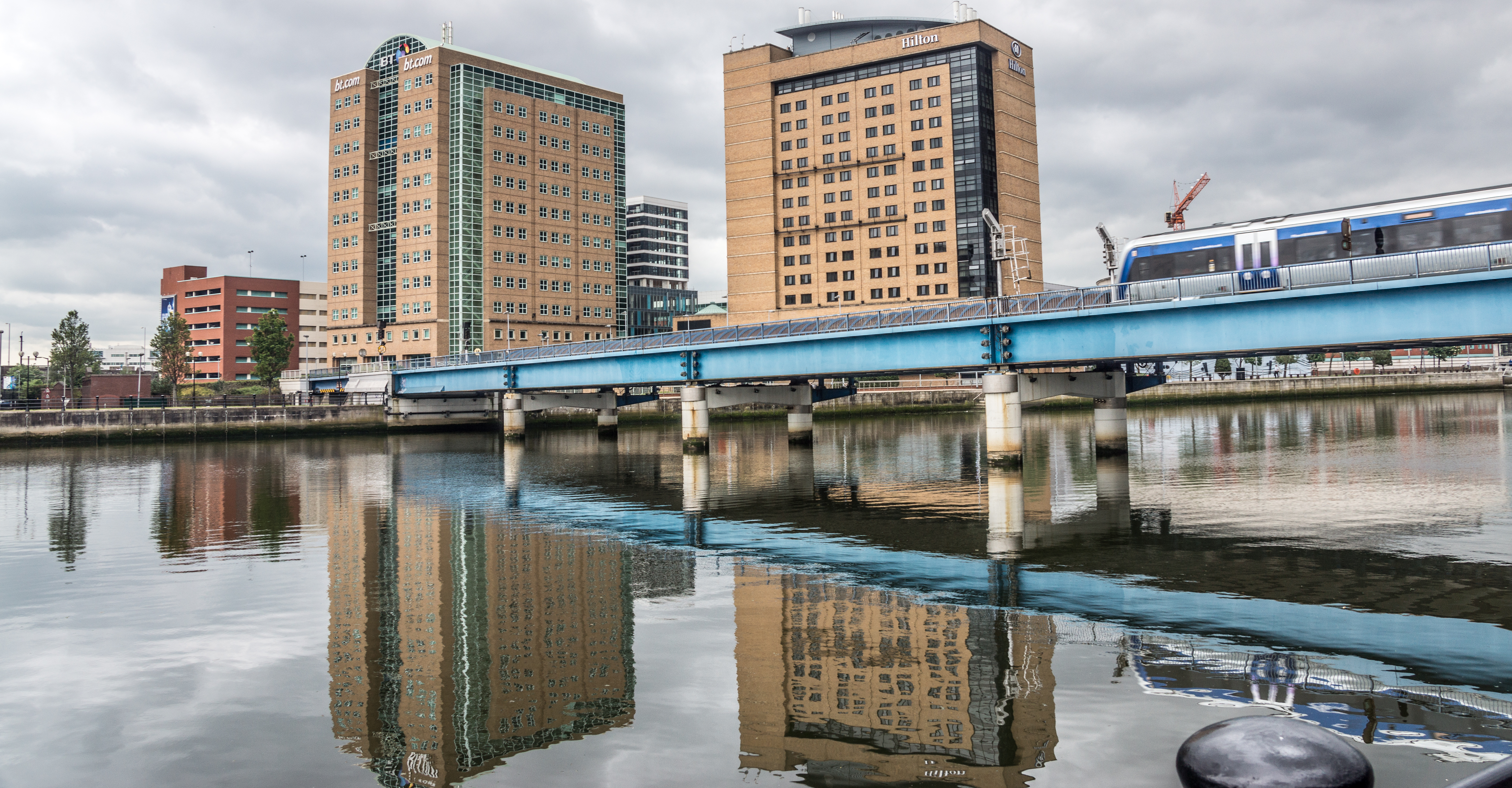 Train Crossing The The Lagan Railway Bridge In Belfast - Northern Ireland